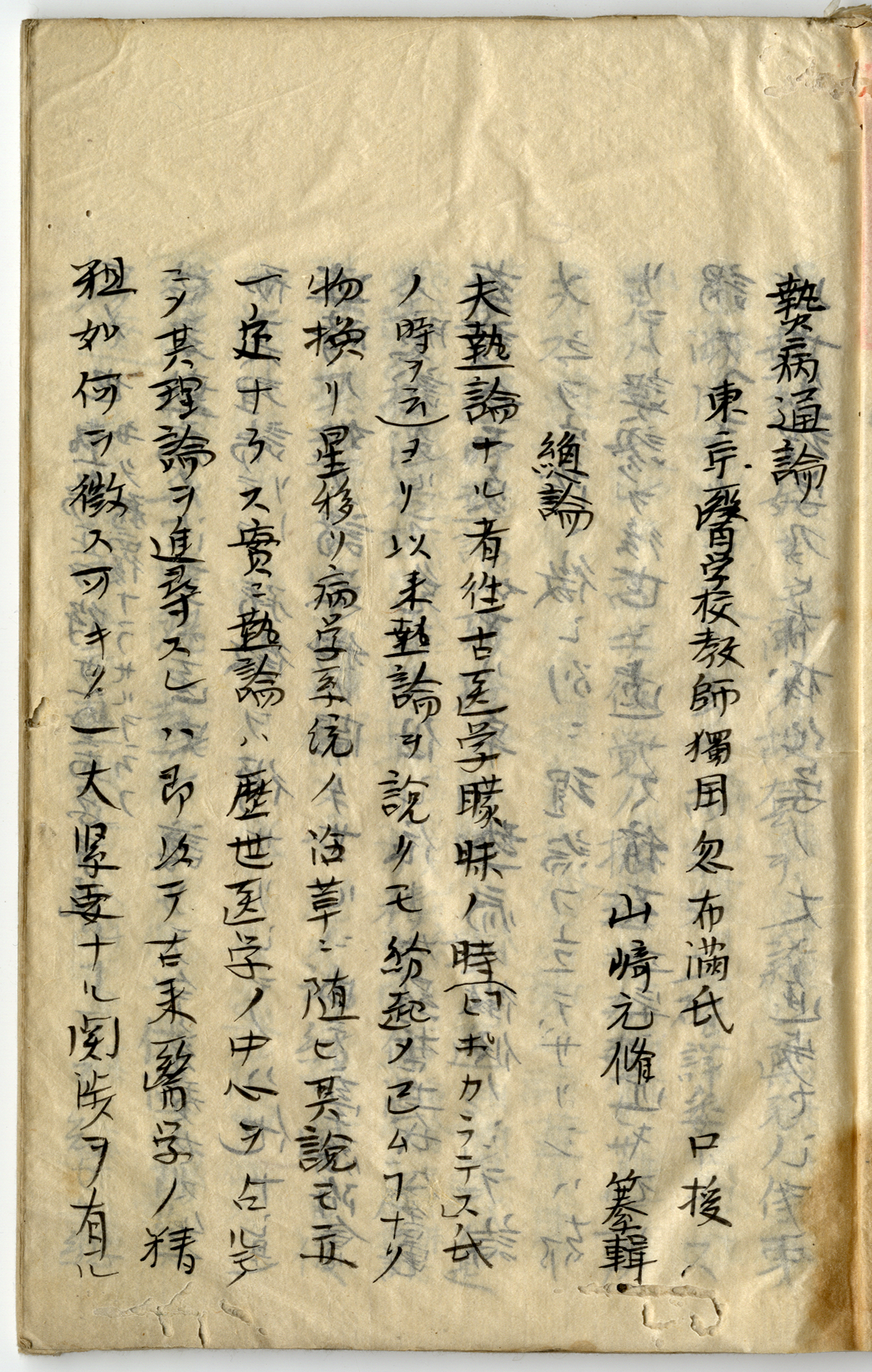 Japanese translation of Theodor Eduard Hoffmann's /1837-94) lecture on febrile diseases give at the Medical School in Tokyo between August 1871 and spring 1875.